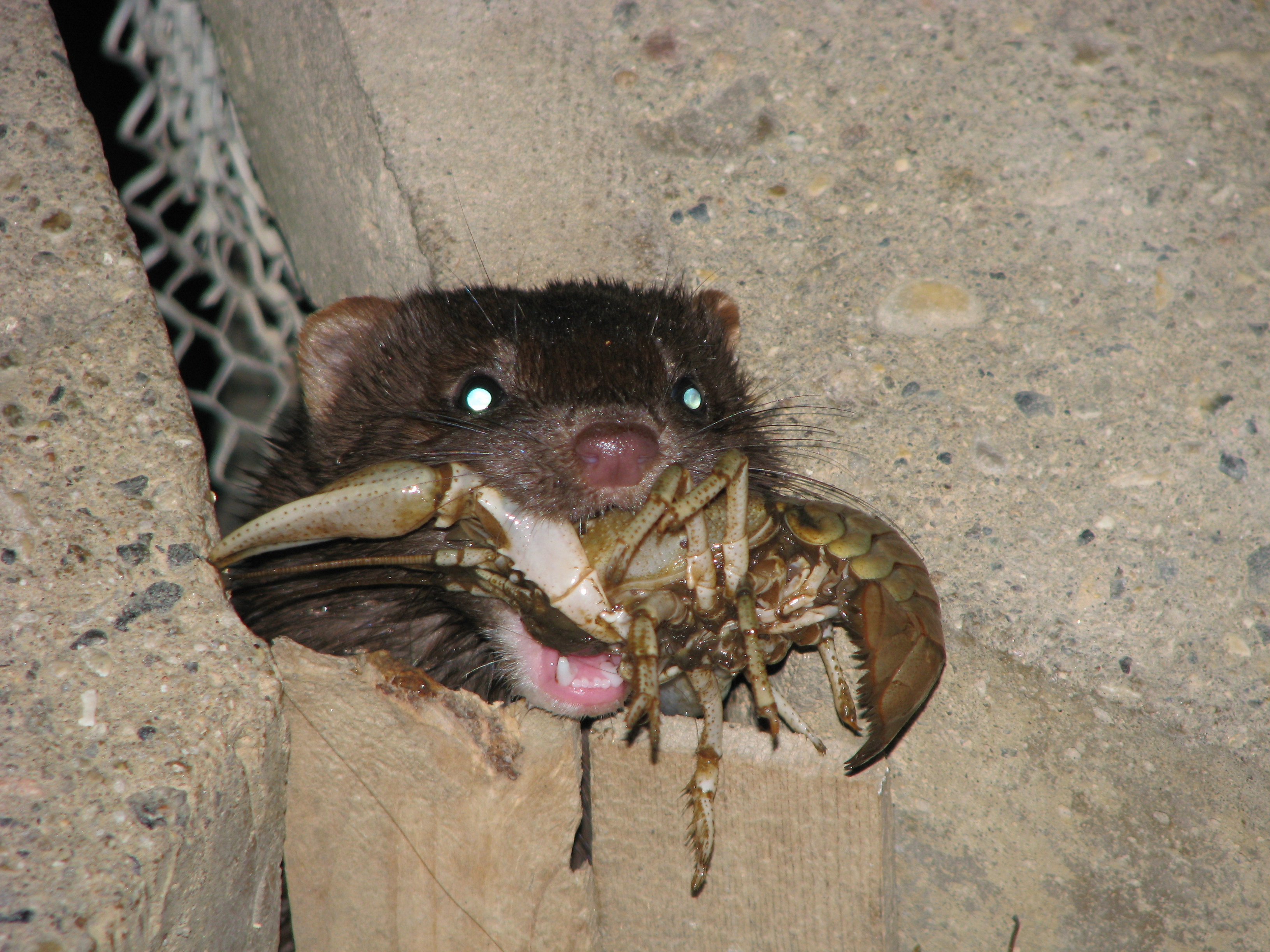 A mink with crayfish in its mouth, along the shore opposite the Legislative building at Wascana Lake in Regina, Saskatchewan, Canada.